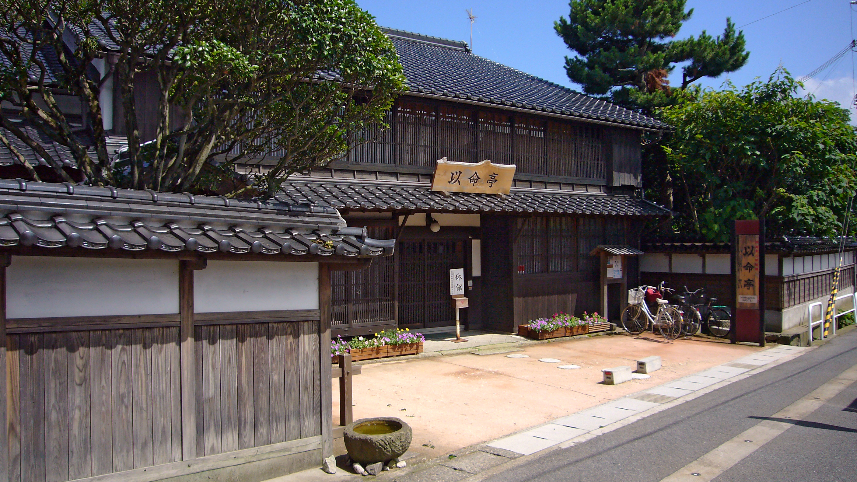 Imeitei in Shinonsen, Hyogo prefecture, Japan